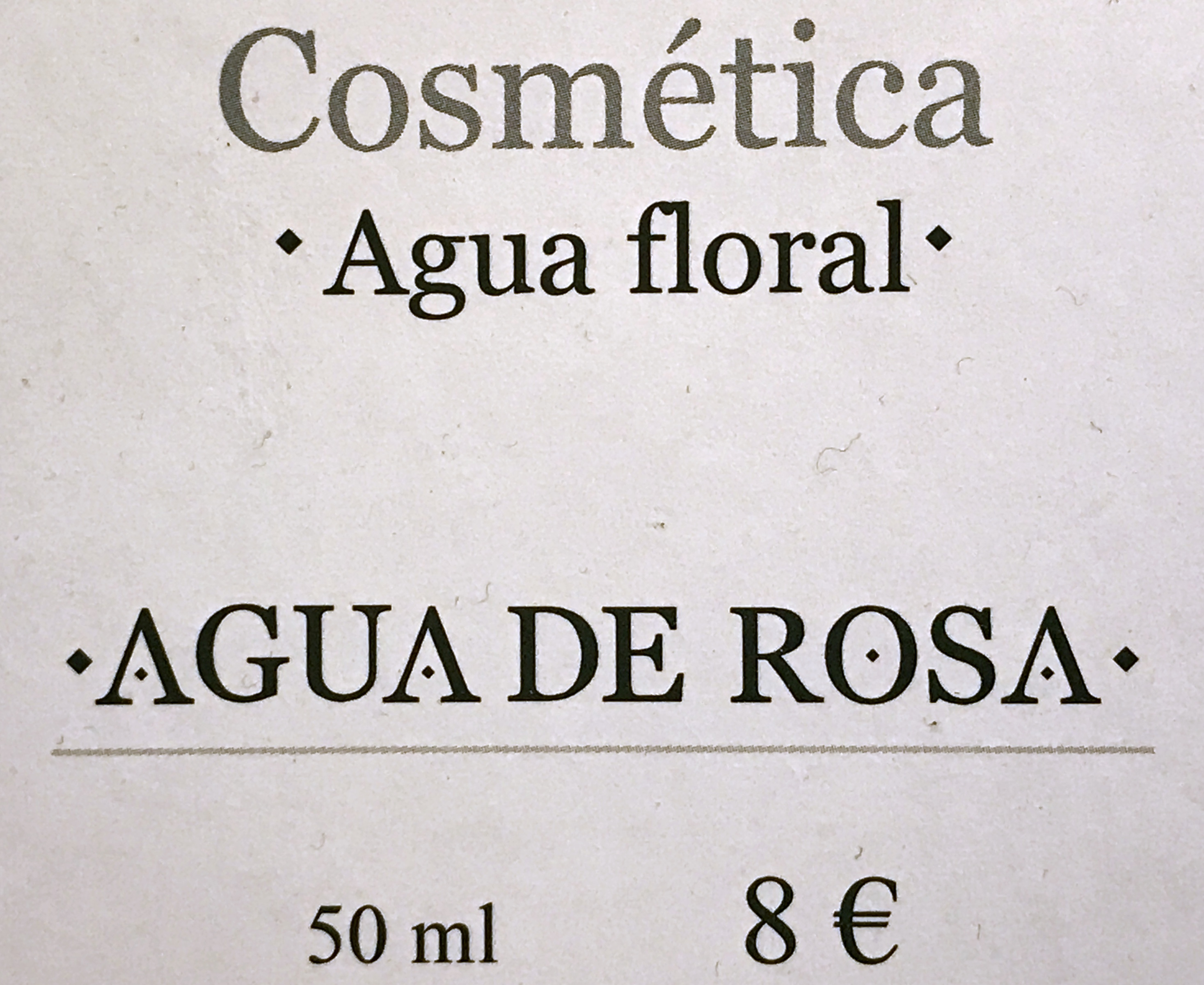 Product label (for a Spanish cosmetic product) using the interpunct or bullet to emphasize the product class